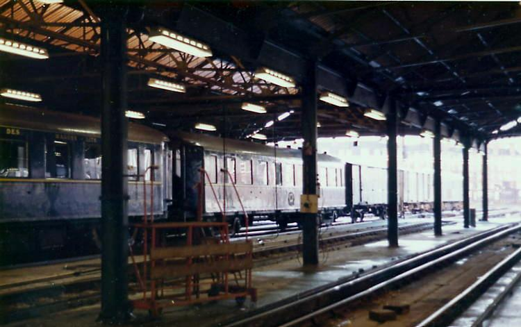 "Night Ferry" London to Paris overnight sleeper train at the Grosvenor Road carriage shed outside Victoria Station in London, 1977.